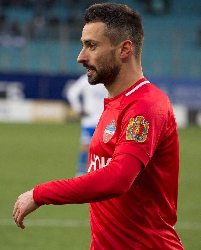 Mikhail Komkov with FC Yenisey Krasnoyarsk in a game against FC Dynamo Moscow.